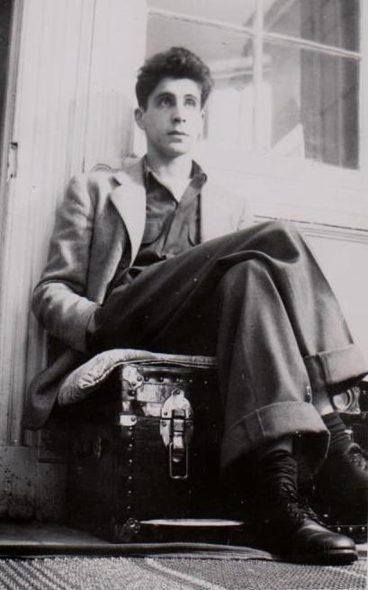 Anthony Hecht at the Iowa Writer's Workshop in 1947